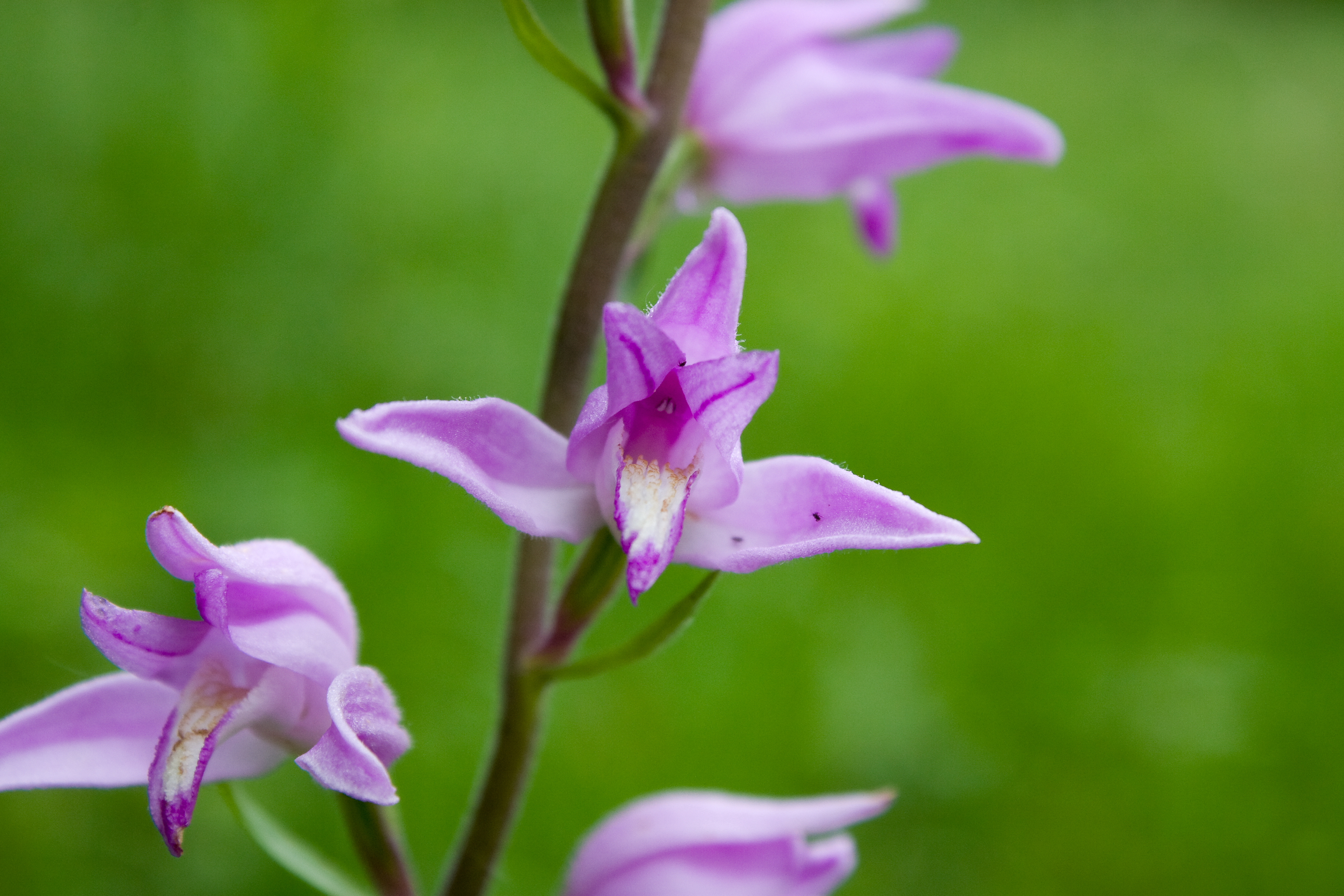 Inflorescence of the Red Helleborine (Cephalanthera rubra) in the Liliental, Kaiserstuhl, Germany.